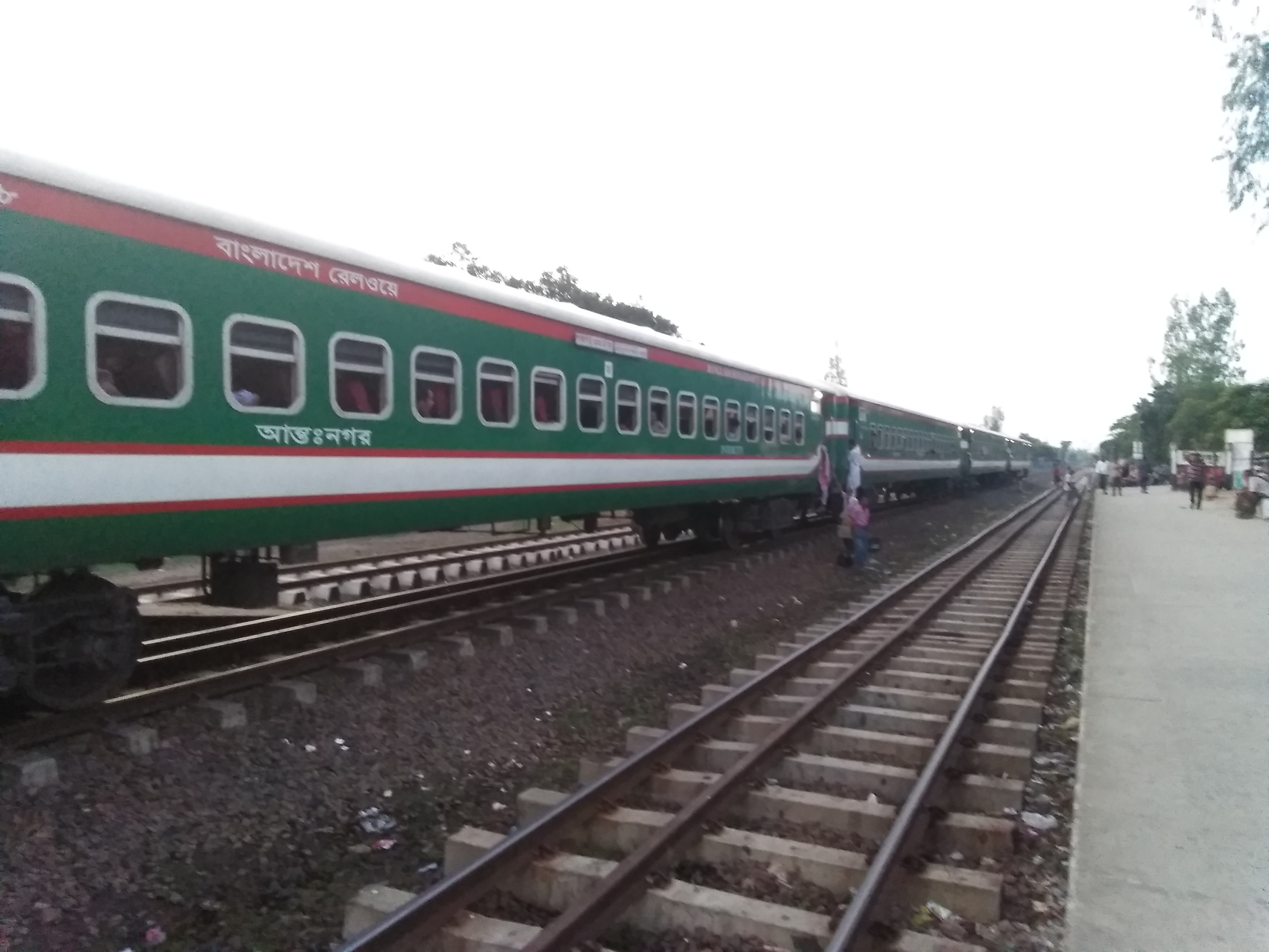 The train was returning from Dhaka. The photo was taken by Ruhan